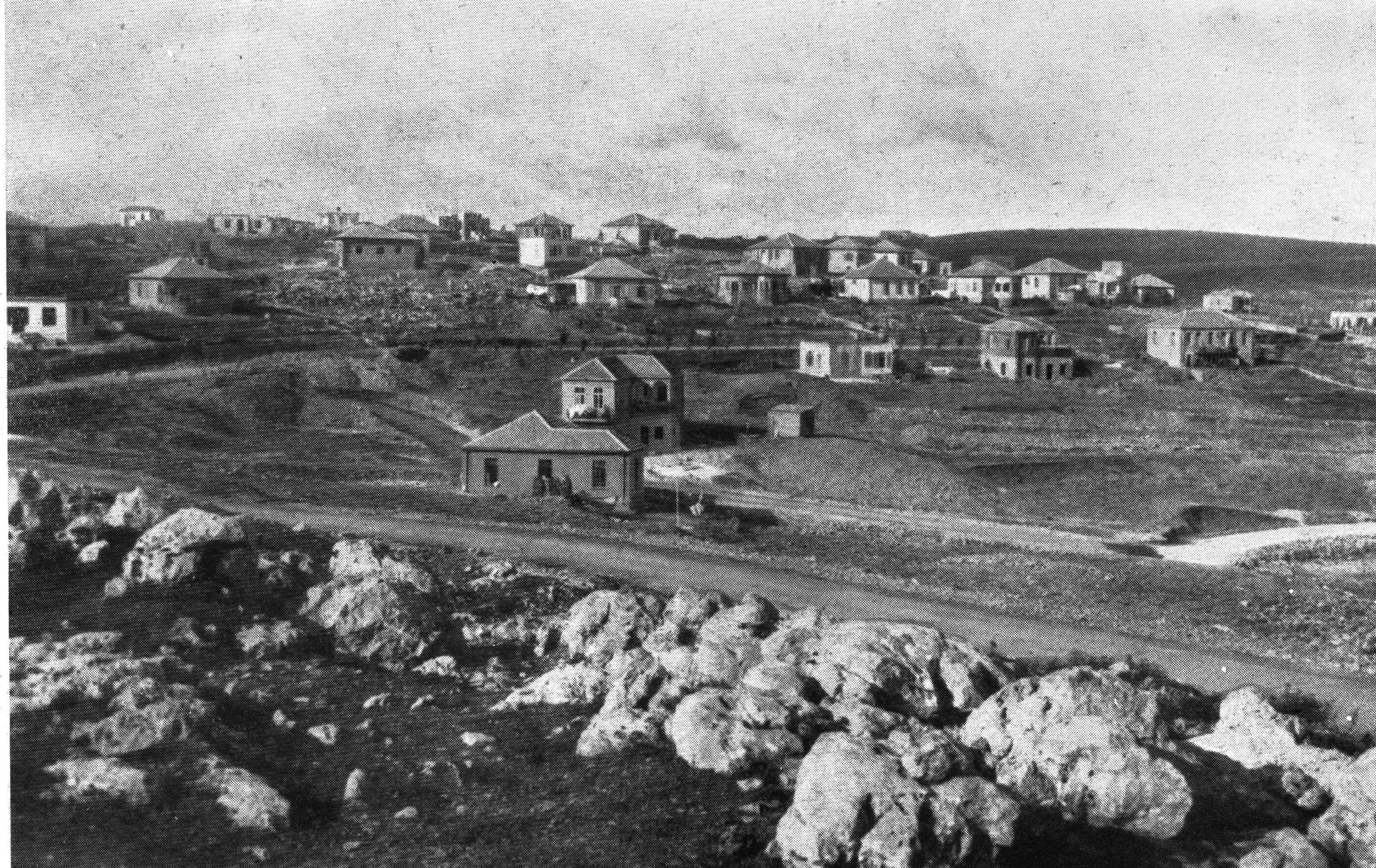 Jerusalem - Jewish suburb of Beit HaKerem c. 1925